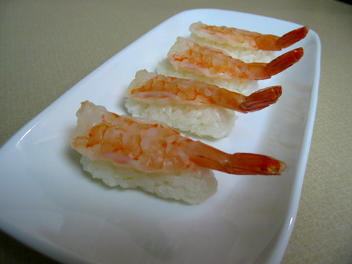 Shrimp Nigiri Sushi (Ebi)